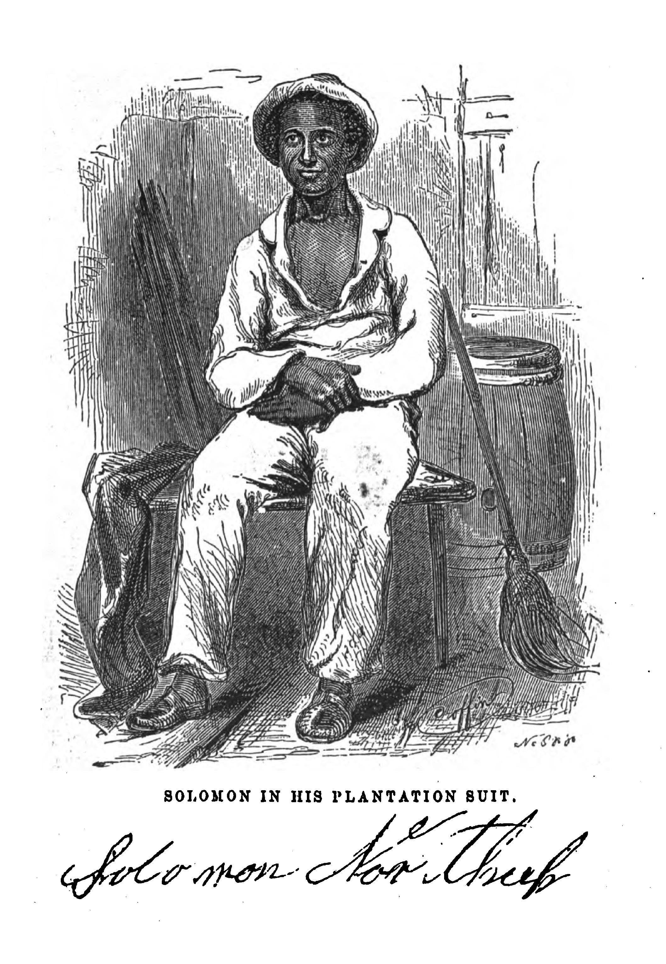 Sketch of Solomon Northup